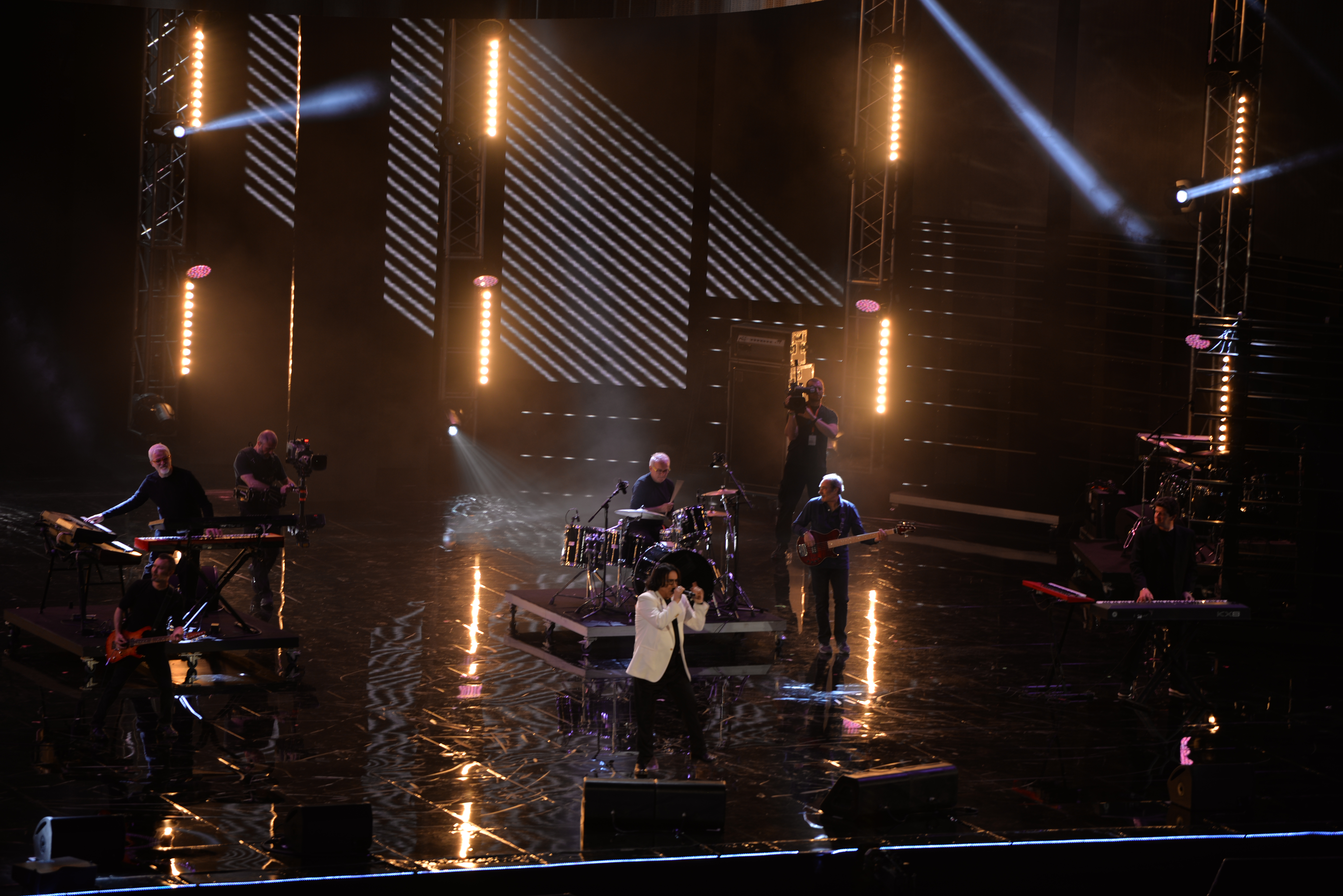 Renato Zero during the Wind Music Awards 2016 ceremony at Verona Arena